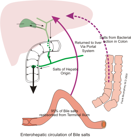 Diagram showing enterohepatic circulation of Bile Salts